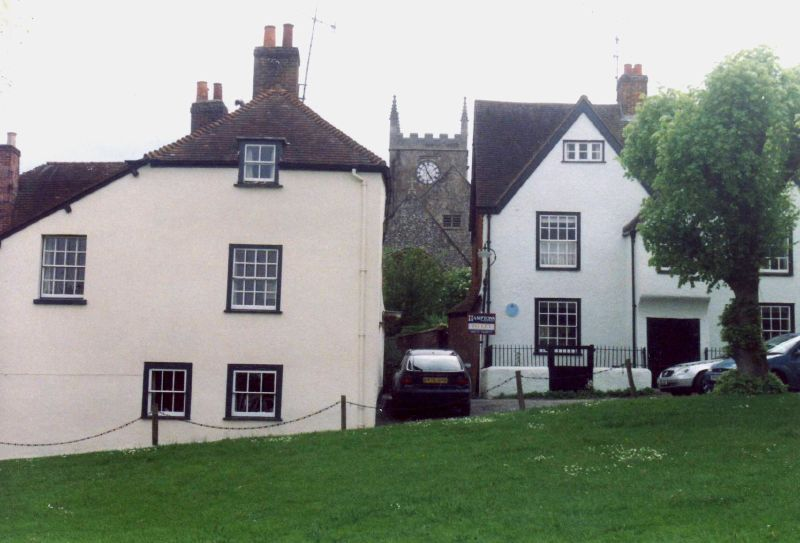 William Golding's bornhouse in Marlborough, England.